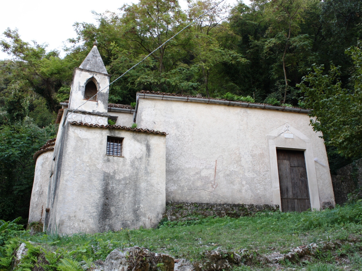 Church of Saint Vitus in Maratea (Italy)